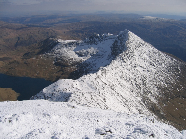 View towards Y Lliwedd from the summit of Yr Wyddfa/Snowdon Taken from the highest part of Yr Wyddfa looking along the ridge towards Y Lliwedd. The Watkin Path follows the ridge on the south side (right) and then turns south for lower ground as the path starts to rise towards Y Lliwedd. Llyn Llydaw is far below to the left.